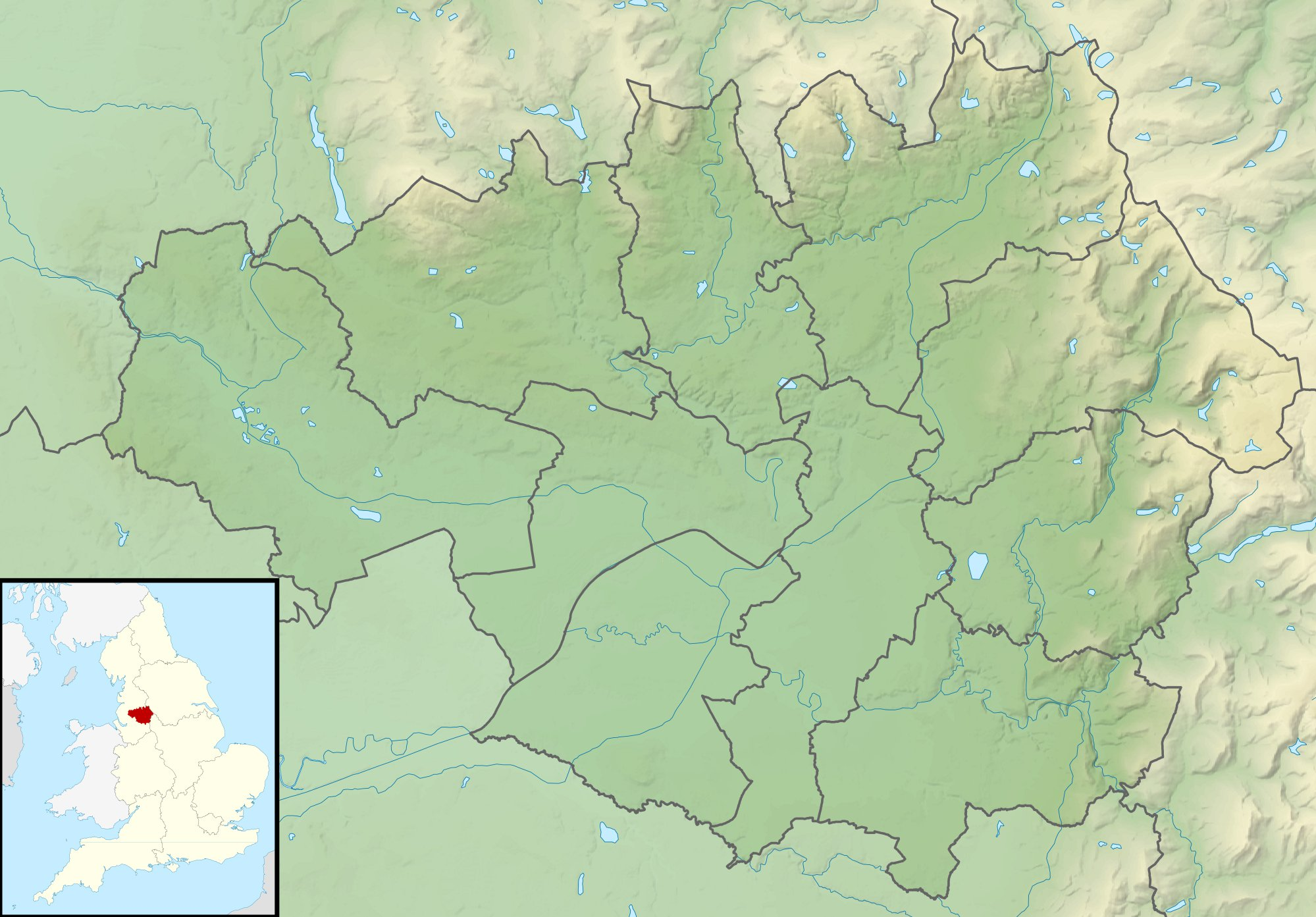 Relief map of Greater Manchester, UK. Equirectangular map projection on WGS 84 datum, with N/S stretched 165% Geographic limits: West: 2.80W East: 1.90W North: 53.70N South: 53.32N